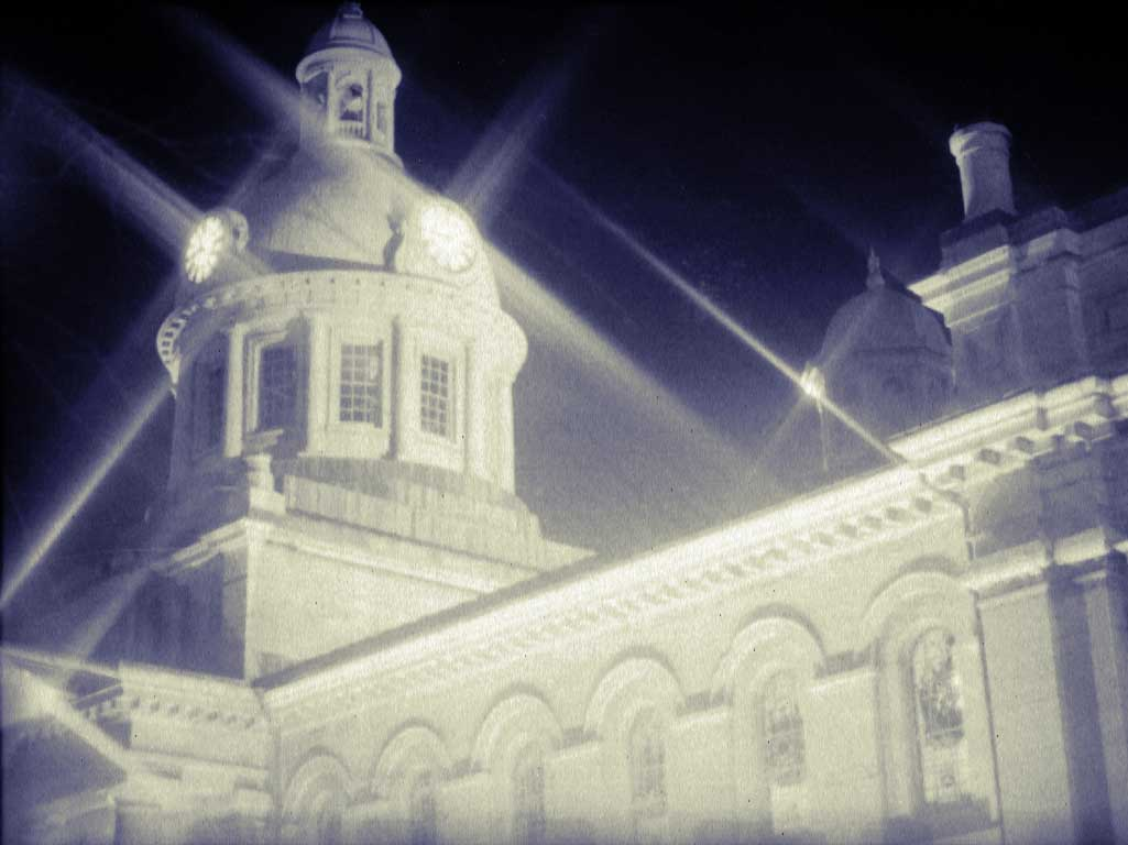 Kingston (Ontario) city hall, designed by architect George Brown and constructed in the 1840s (farmers' market is located behind city hall, not shown here) Taken in fall 2001 by user:carlb using a 35mm SLR, star-4 filter, tripod positioned at Brock/Ontario St corner of Confederation Park on Kingston's waterfront